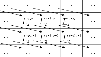 Corrected spectral sequence diagram illustration - by saaska